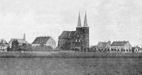 Tschernyschewskoje, Russia, Evangelical Eydtkuhnen church at the beginning of 20th century, now ruined